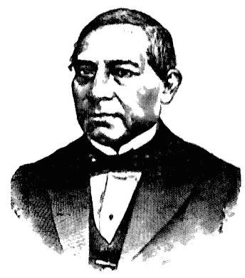 . Public domain from Giants of the Republic, 1897, by Edward Everett Hale